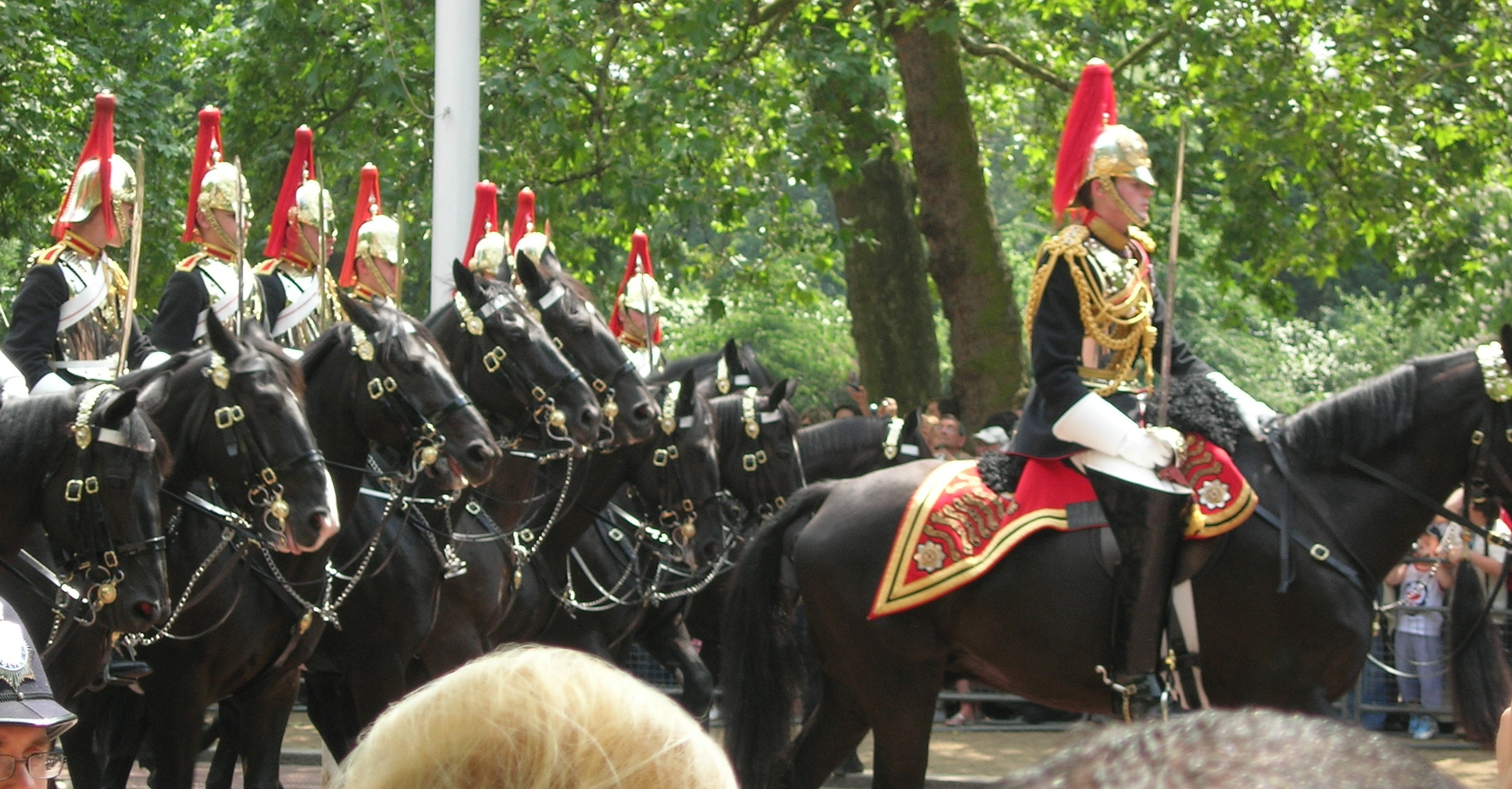 Trooping of colour, June 17, 2006. (Note Prince Harry has been established not to feature in this photo from other photos of the day when he is wearing a different uniform. The rank insignia is also wrong for it to be Harry.)